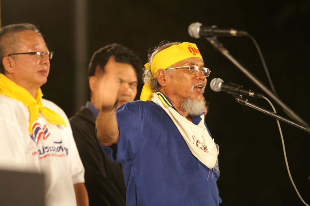 Somsak Kosaisuuk (with Sondhi Limthongkul and Somkiet Pongpaibul) in People's Alliance for Democracy protest to oust Thaksin Shinawatra in 2006.